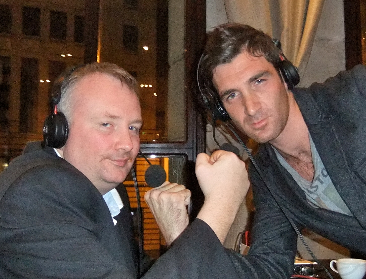 crop from photo of Stephen Nolan and Paul Martin posing